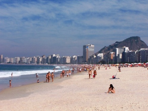 Rio's famous Copacabana Beach.